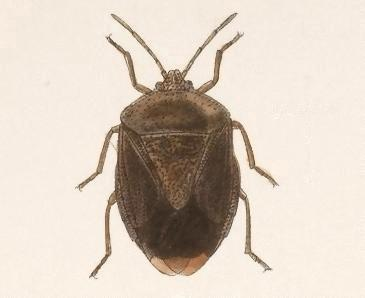 Biologia Centrali-Americana - Edessa abdominalis Cut-out from original (Biologia Centrali-Americana (8271463705).jpg) shown below